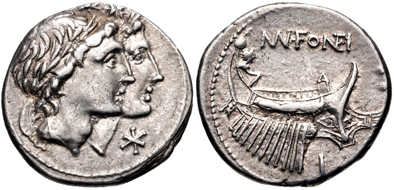 Mn. Fonteius 108-107 BC. AR Denarius (18mm, 3.94 g, 2h). Rome mint. Jugate, laureate heads of the Dioscuri right; mark of value to lower right / Galley right with gubernator at stern; I or L below. Crawford 307/1b; Sydenham 566; Fonteia 7. Good VF. From the Simon Shipp Collection.